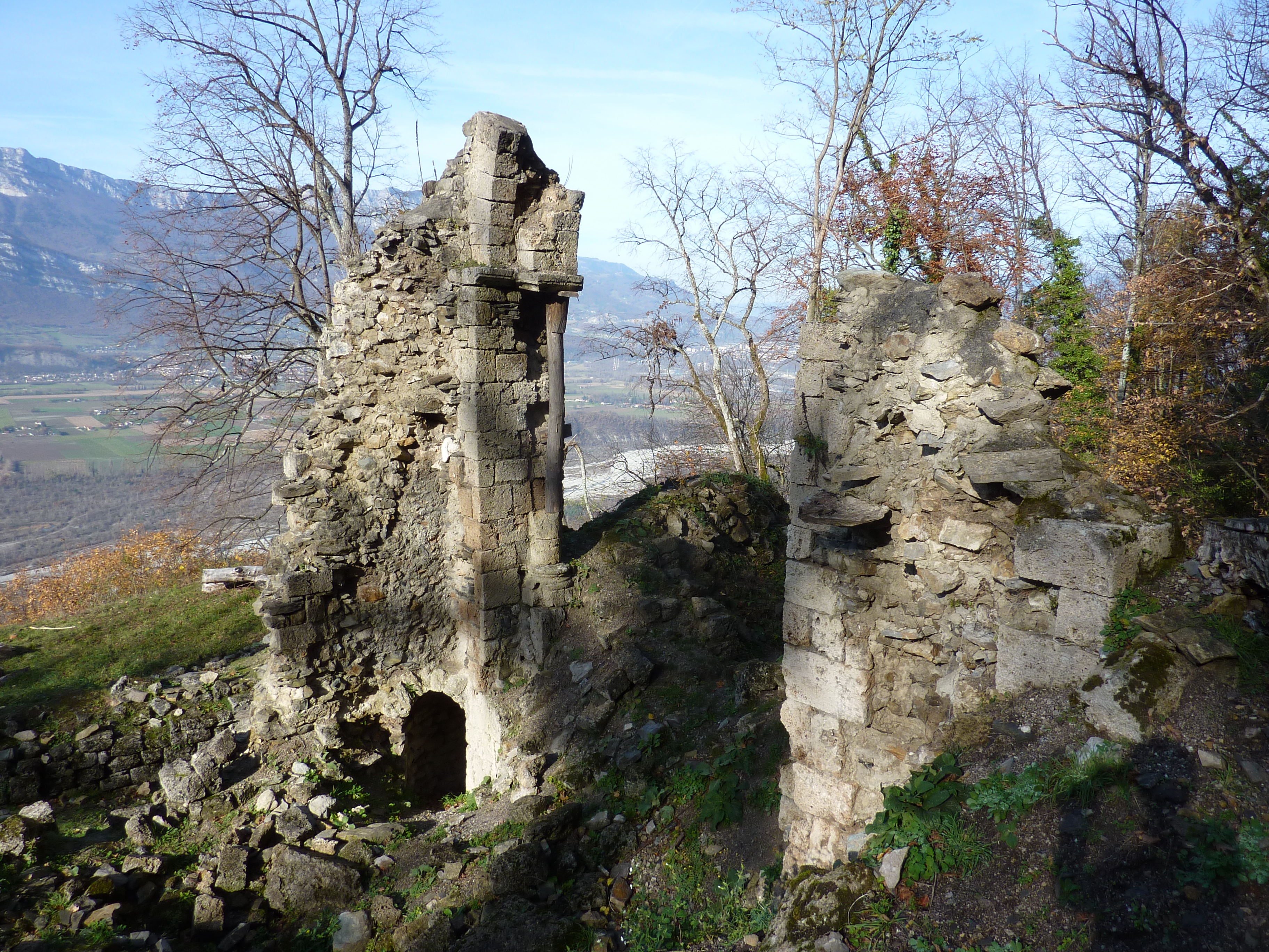 Saint-Michel de Connexe priory ruins, Champ-sur-Drac, Isère, France.